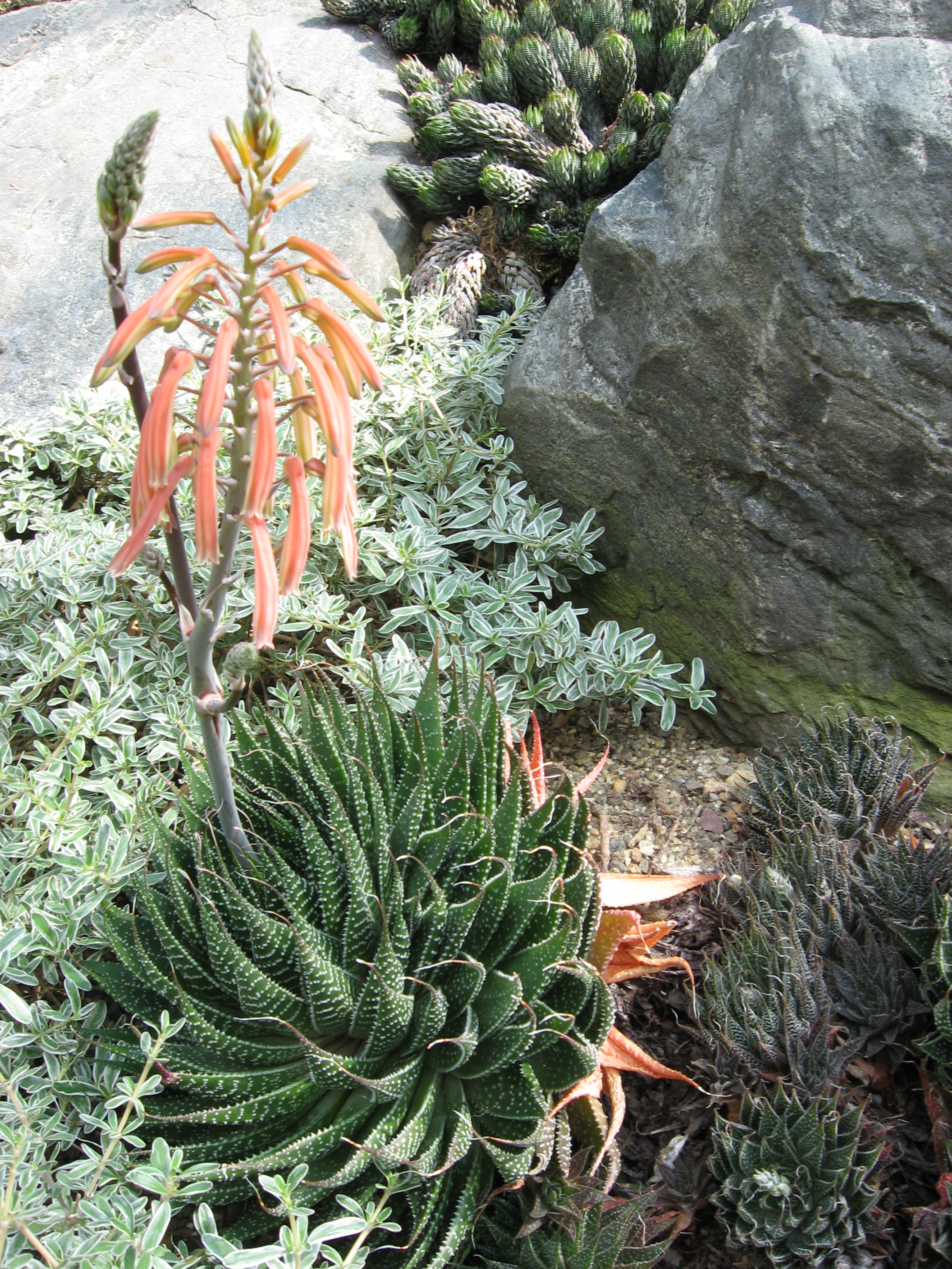 A picture of a flowering Aloe aristata.